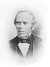 Portrait of Senator William P. Sheffield of Rhode Island